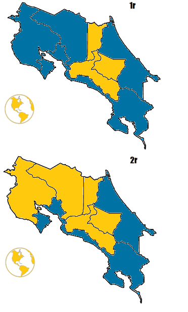 2018 provincial results of the presidential election